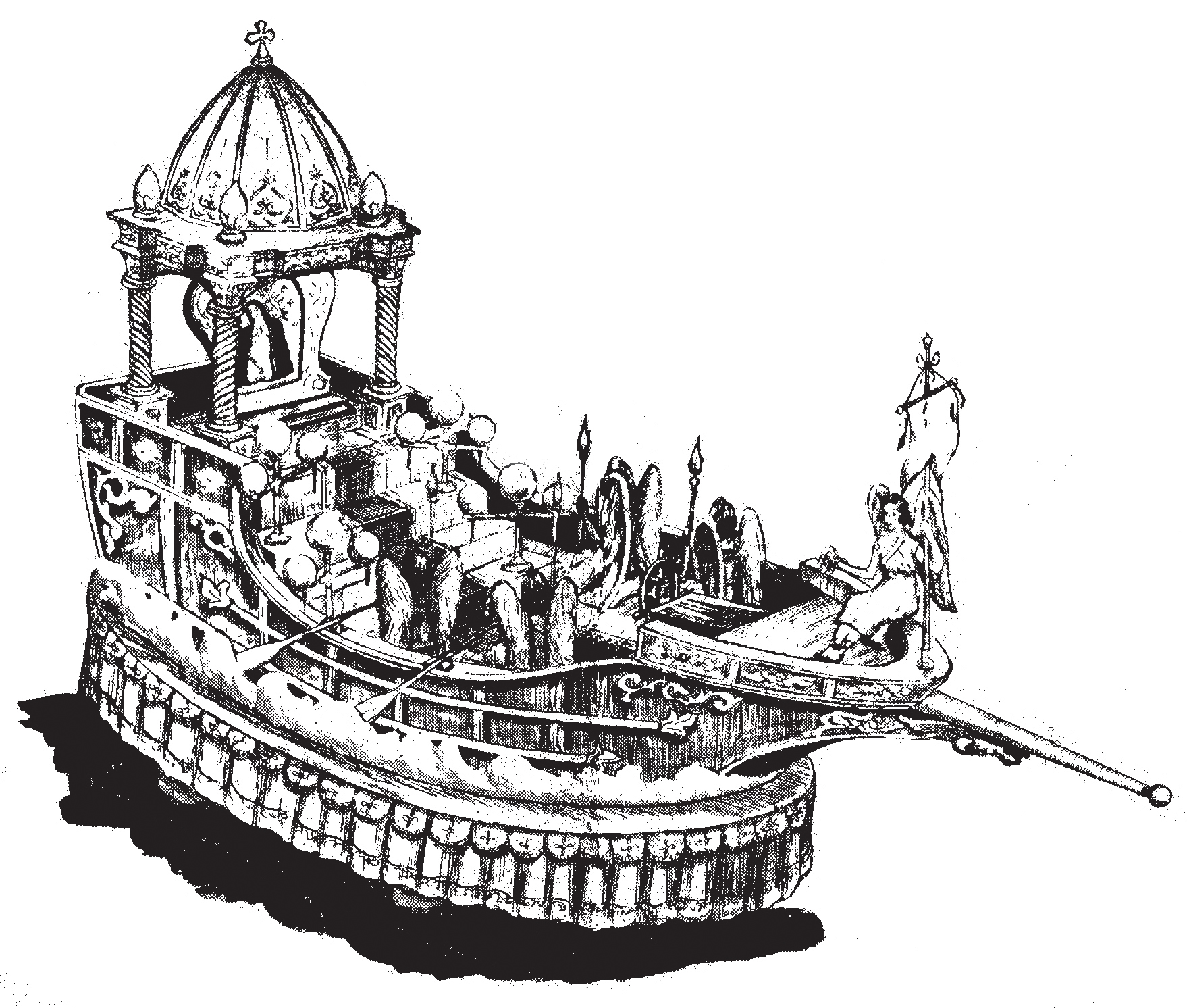 Original Design of the Galleon Caroza of Our Lady of Soledad of Porta Vaga